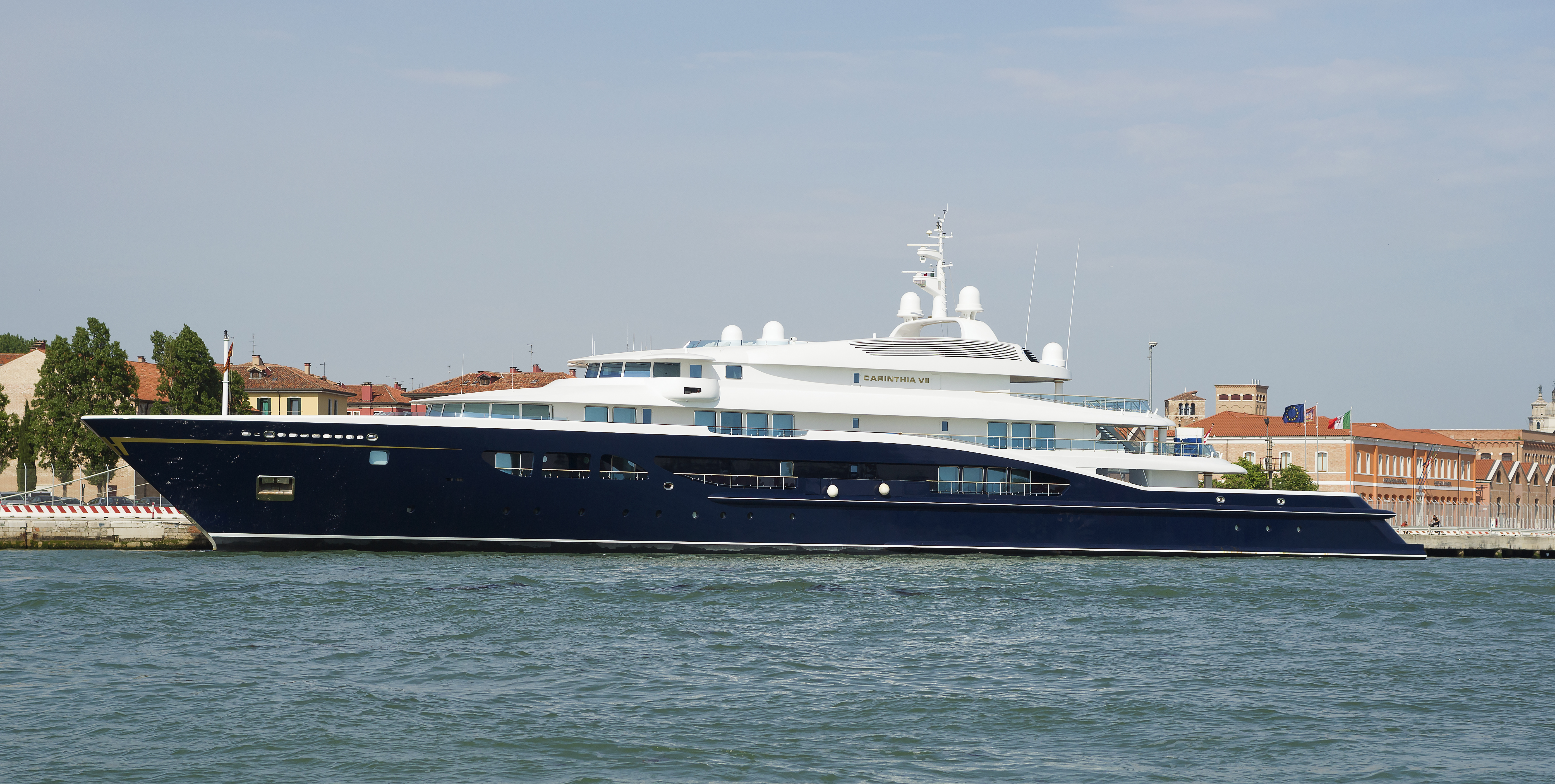 The yacht Carinthia VII was built in the Lürssen Yachts yard in 2002 and refurbished in the same yard 3 years later.